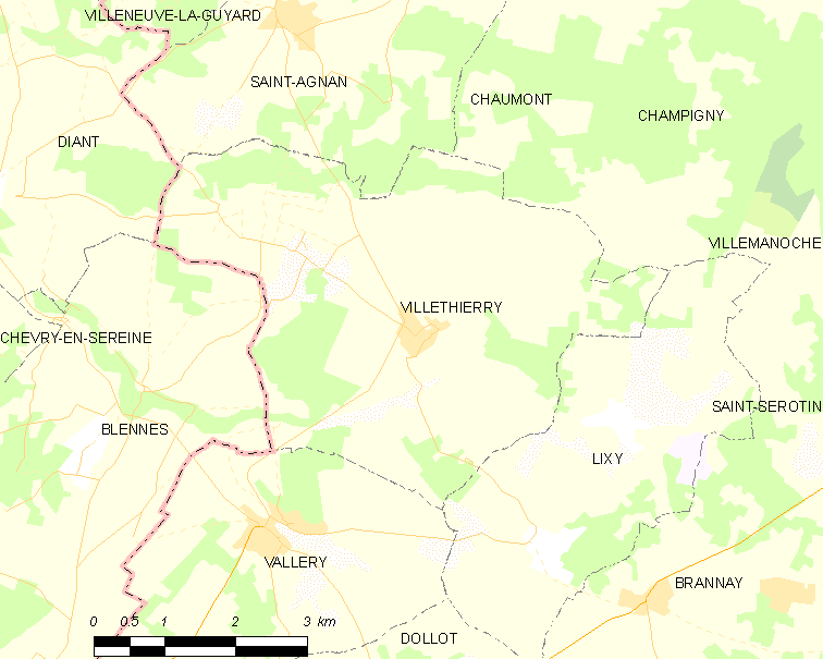 Map of French municipality Villethierry